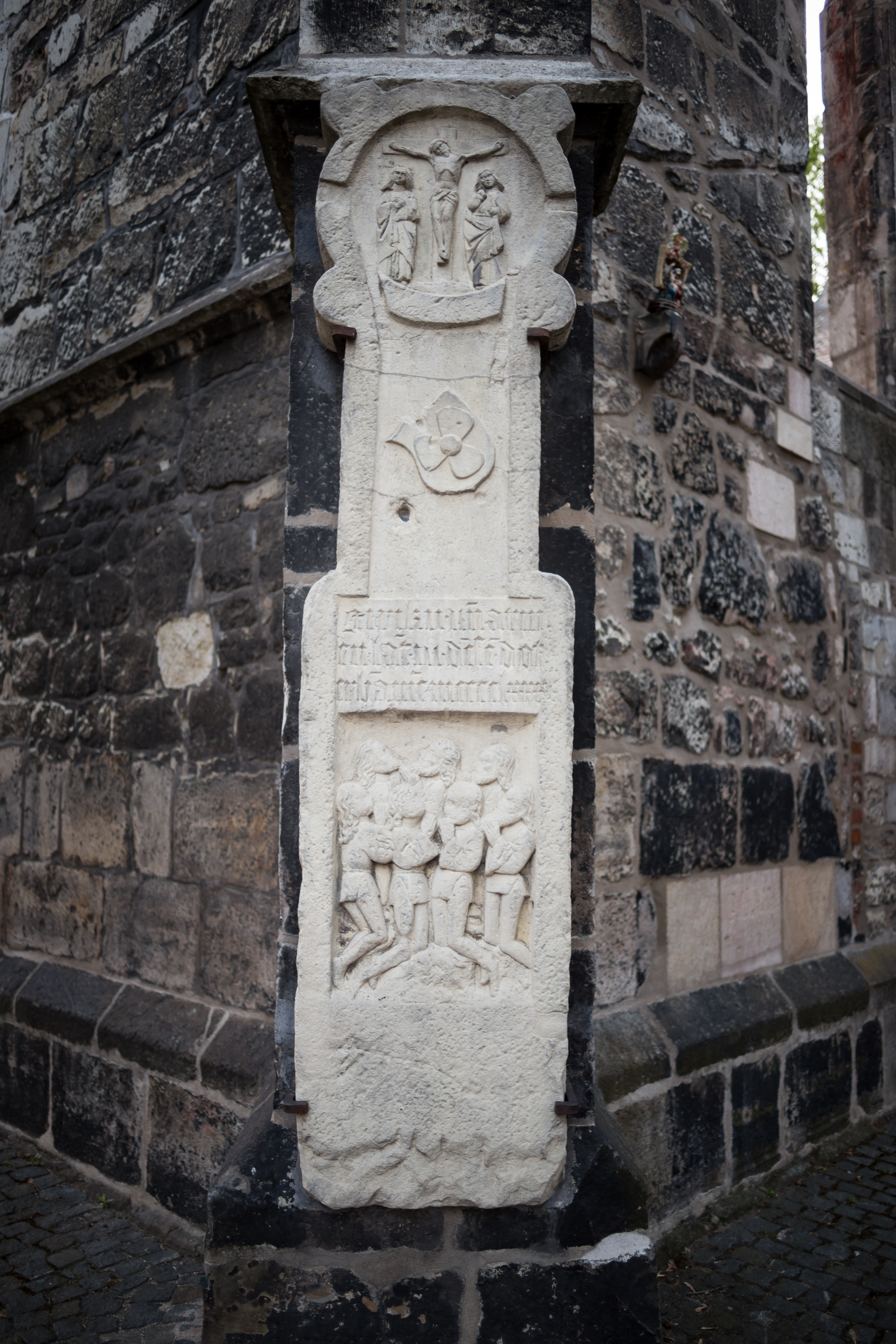 Ruins of Aegidienkirche church. The remains are used as a memorial and are located in Mitte quarter of Hannover, Germany. The image shows a facade relief facing towards the intersection of Breite Strasse and Osterstrasse.